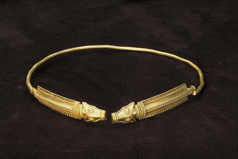 Roman Age golden neck ring found from Nousiainen, Finland in 1770. Collection of Histroriska museet, Stockholm.